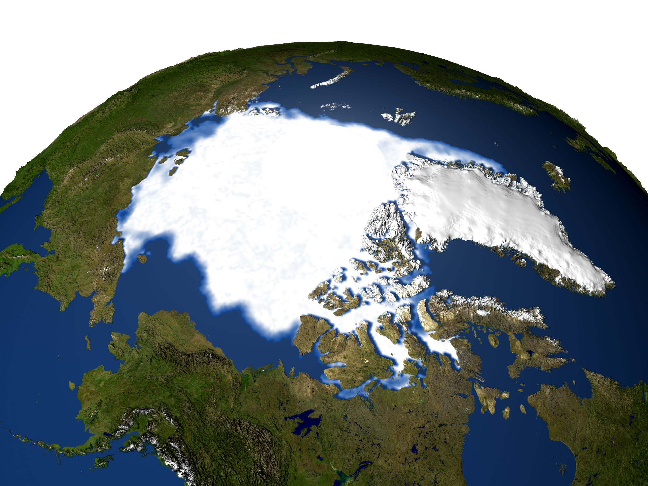 NASA Arctic sea ice imagery